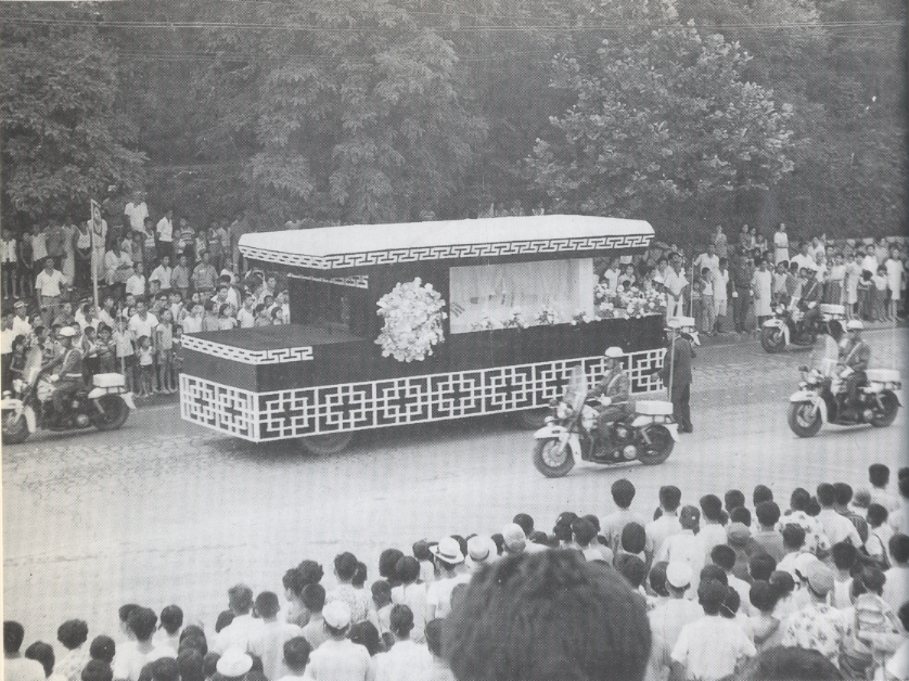 Die of Chang Taek-sang, 3rd Prime Minister, First Foreign Affairs Minister of South Korea